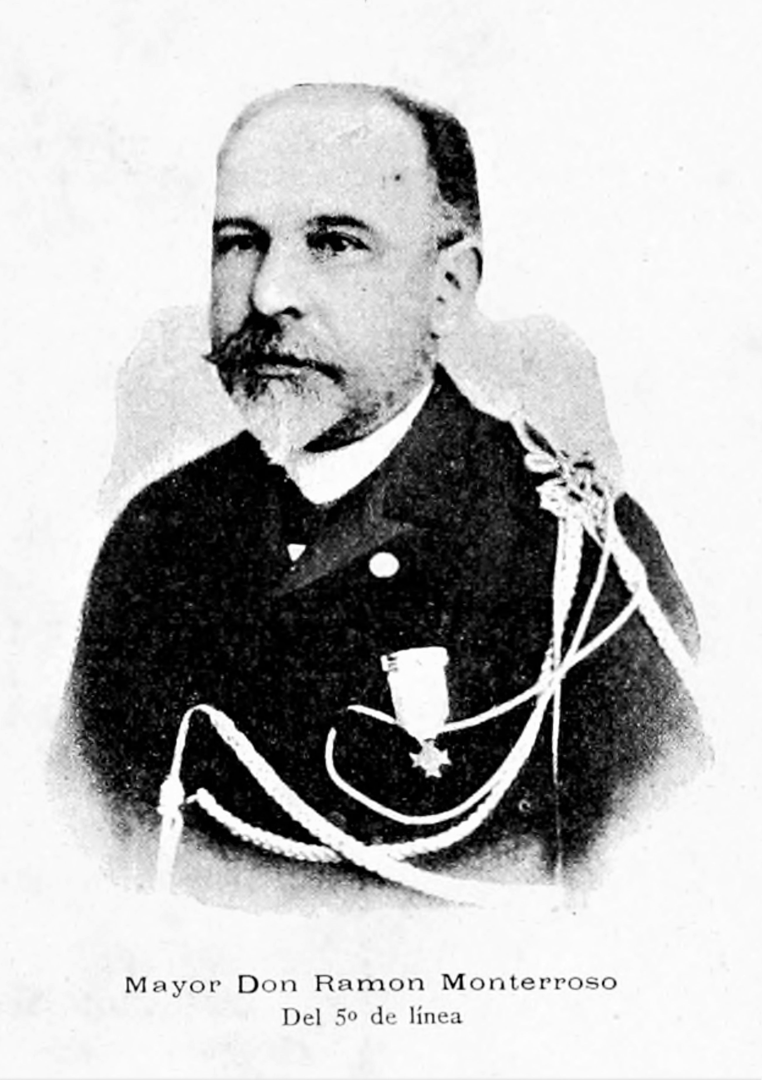 Mayor Ramón Monterroso (c. 1843 - c. 1910).